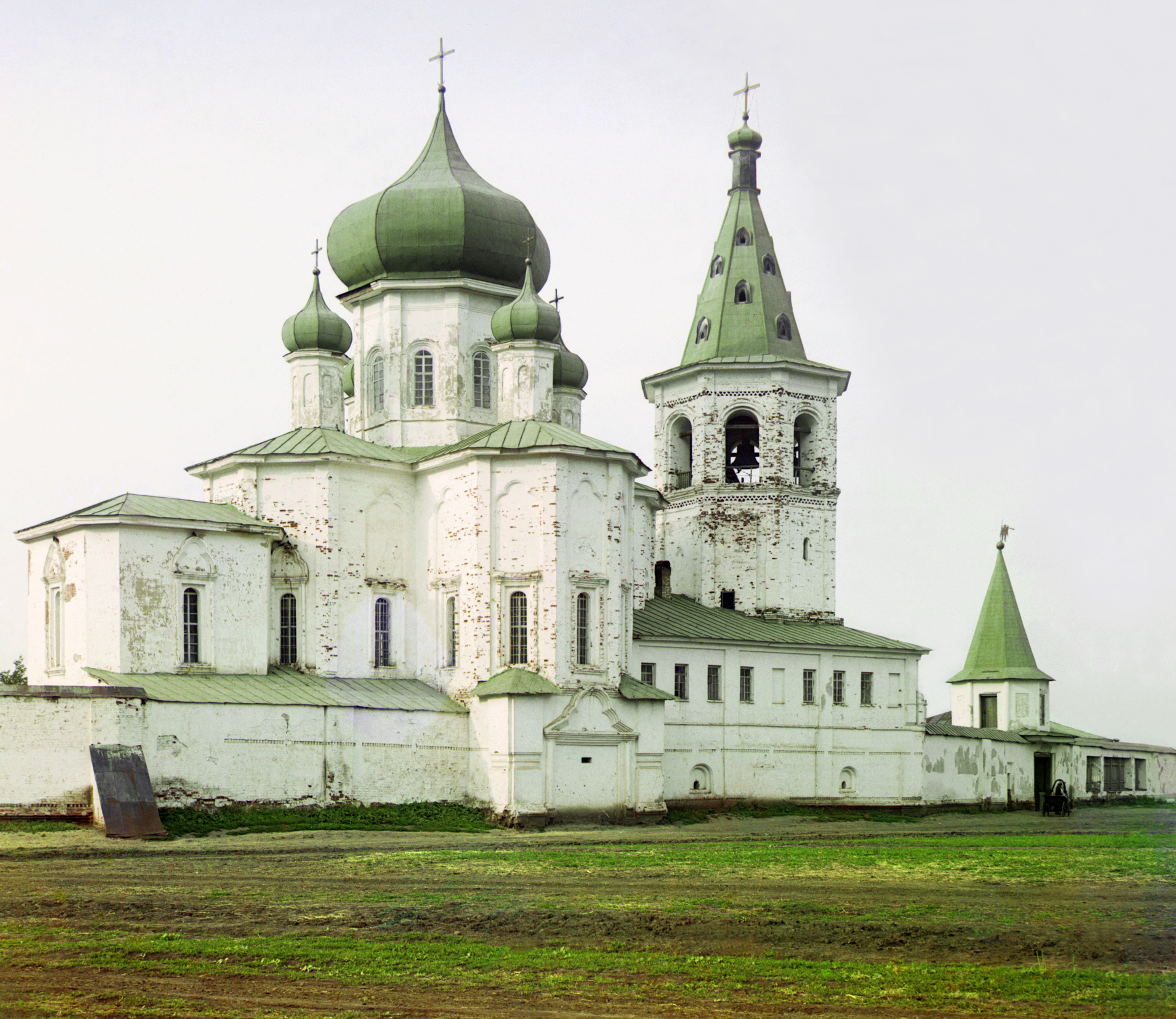 The mid-18th century Trinity Monastery in the city of Tyumen (Russia).